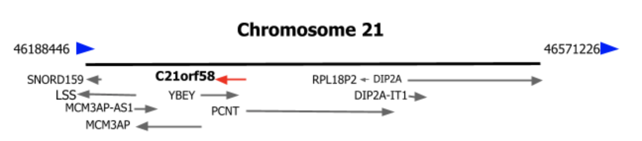 C21orf58 Genomic context. Neighboring genes shown on diagram